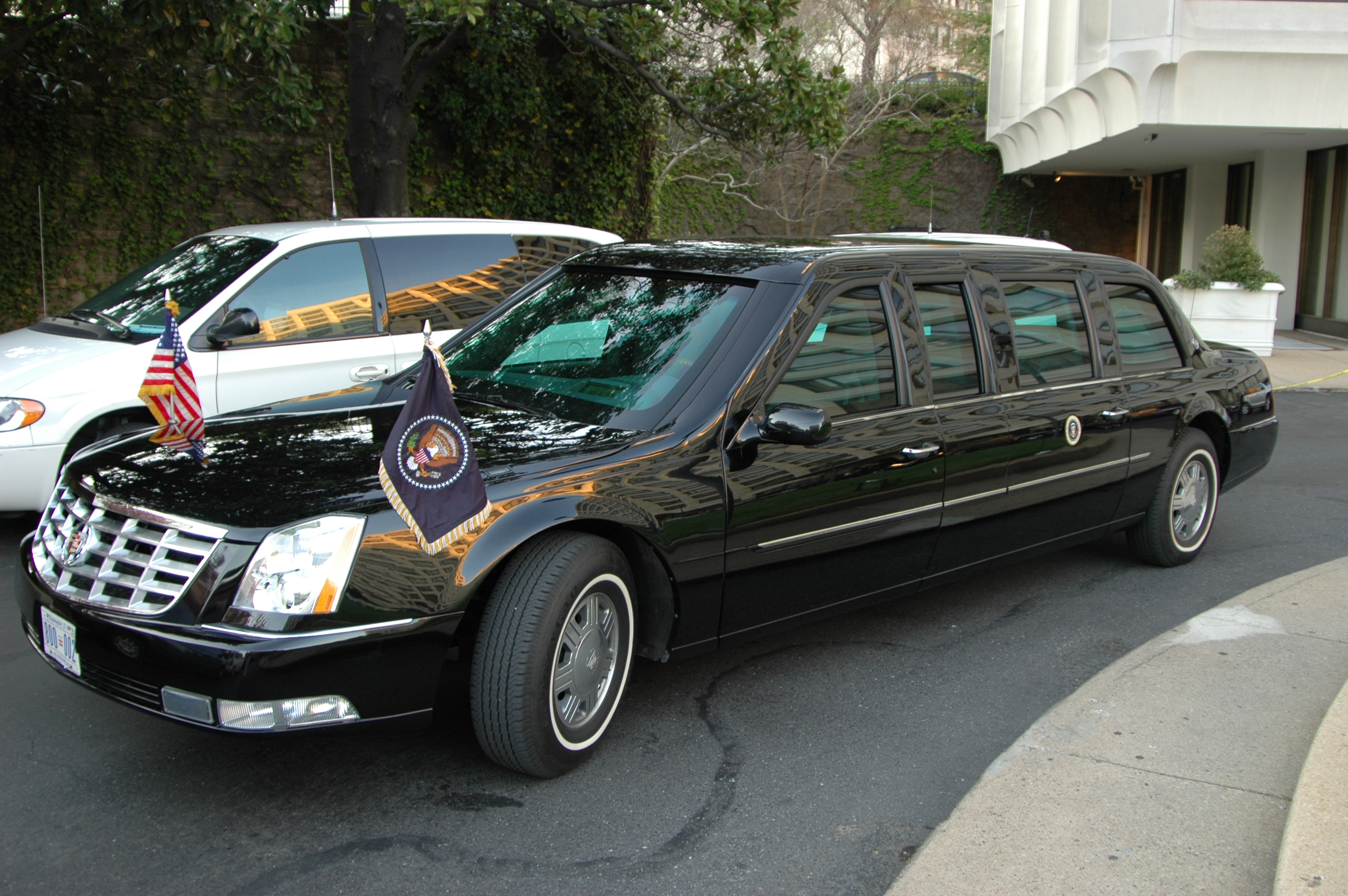 The limousine of the President of the United States parked in front of the Washington Hilton Hotel as the Correspondents' Dinner took place inside.